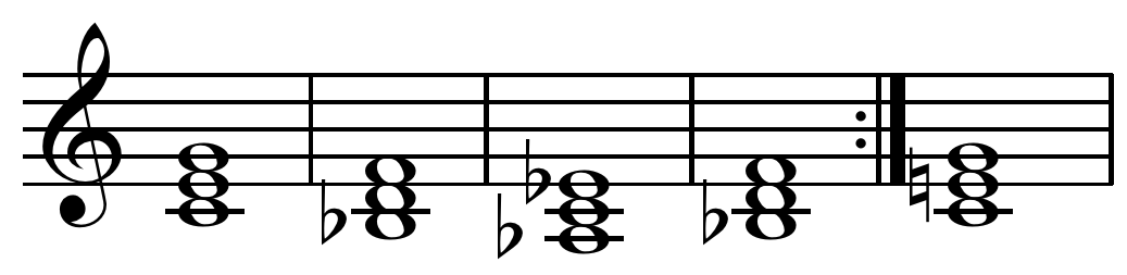 I - ♭VII - ♭VI - ♭VII in C.